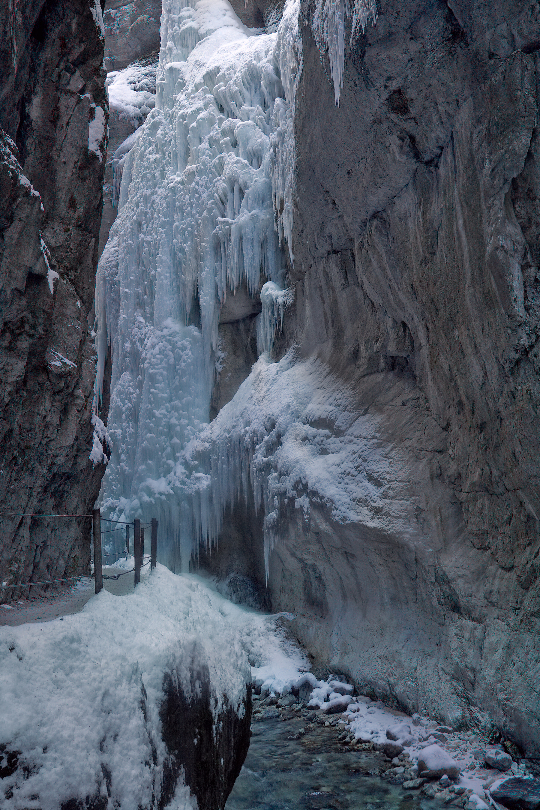 Frozen Waterfall with icicles at Partnachklamm, Garmisch Partenkirchen, Germany.